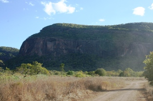 Cape York geology - Mount Mulligan